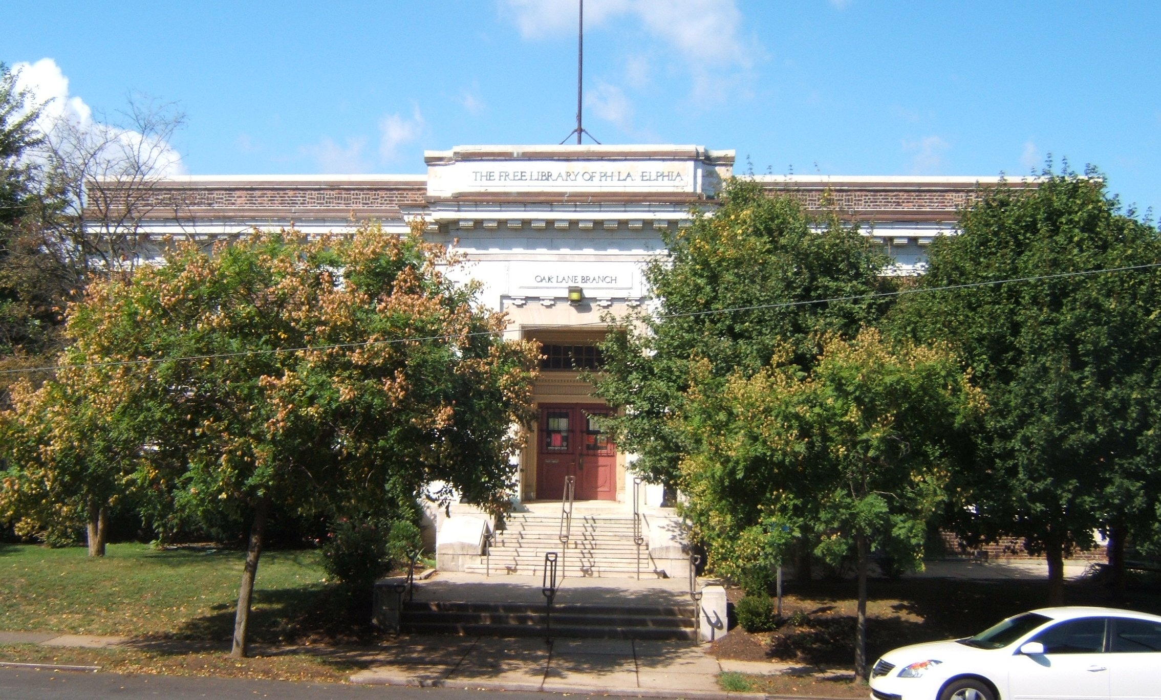 Free Library of Philadelphia, Oak Lane Branch Library, 6614 North 12th Street, Philadelphia, PA 19126